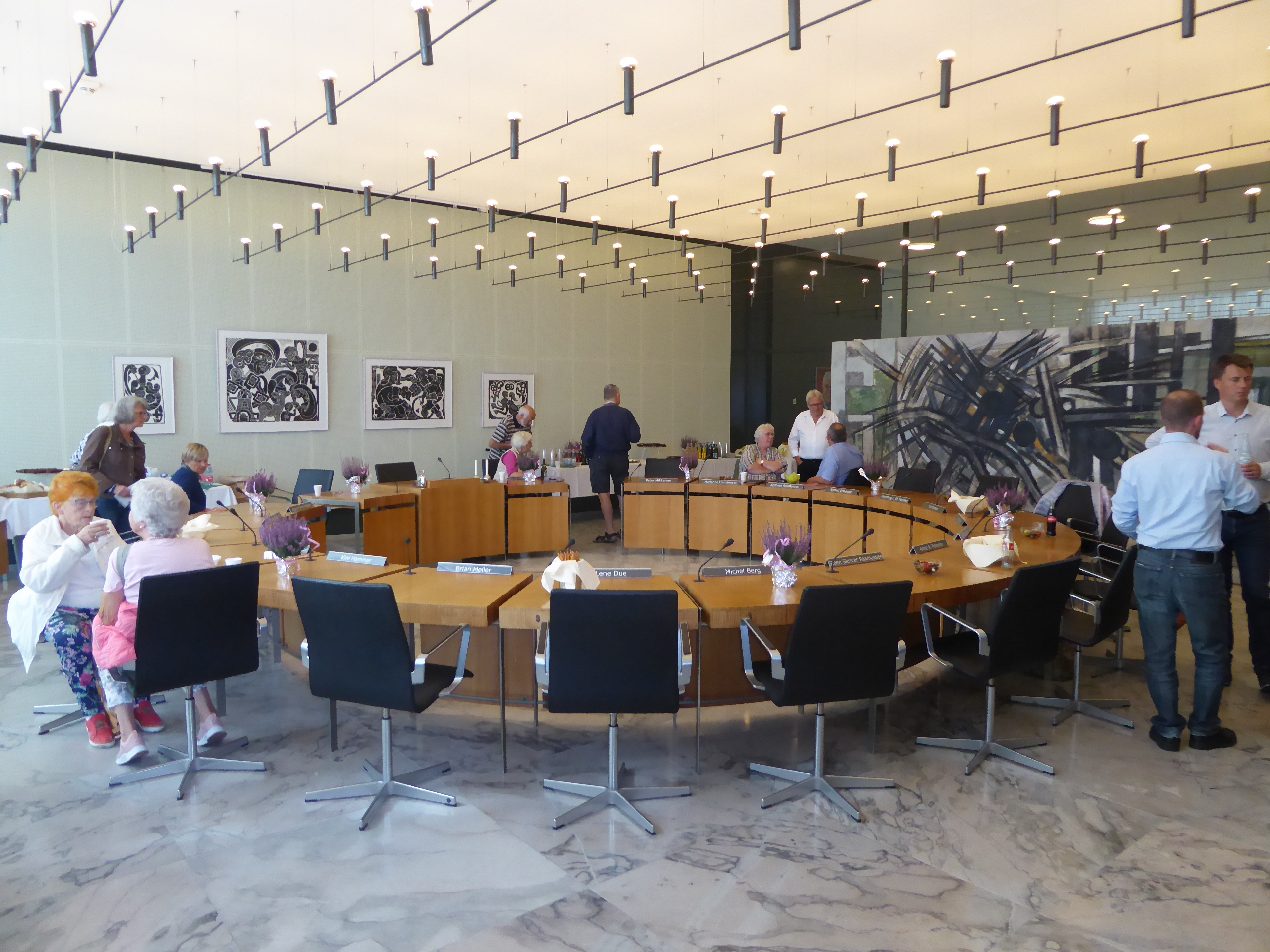 The boardroom of the municipality council of Rødovre in Copenhagen at the annual Rødovredagen.